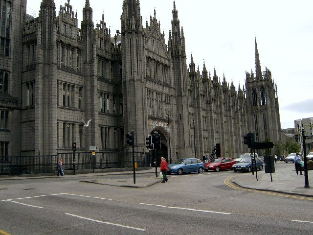 Marischal College.